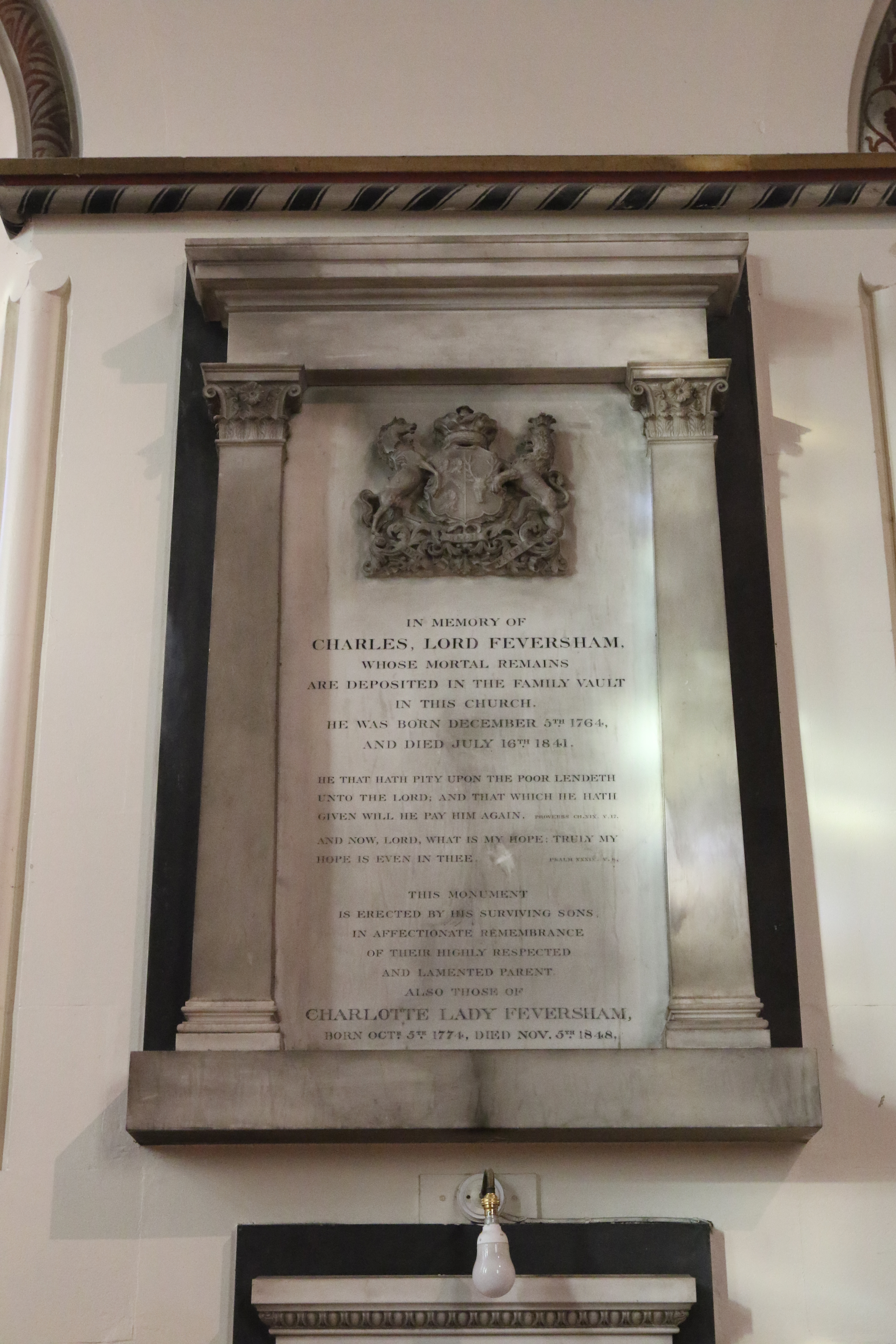 Born December 5th 1764, died July 16th 1841